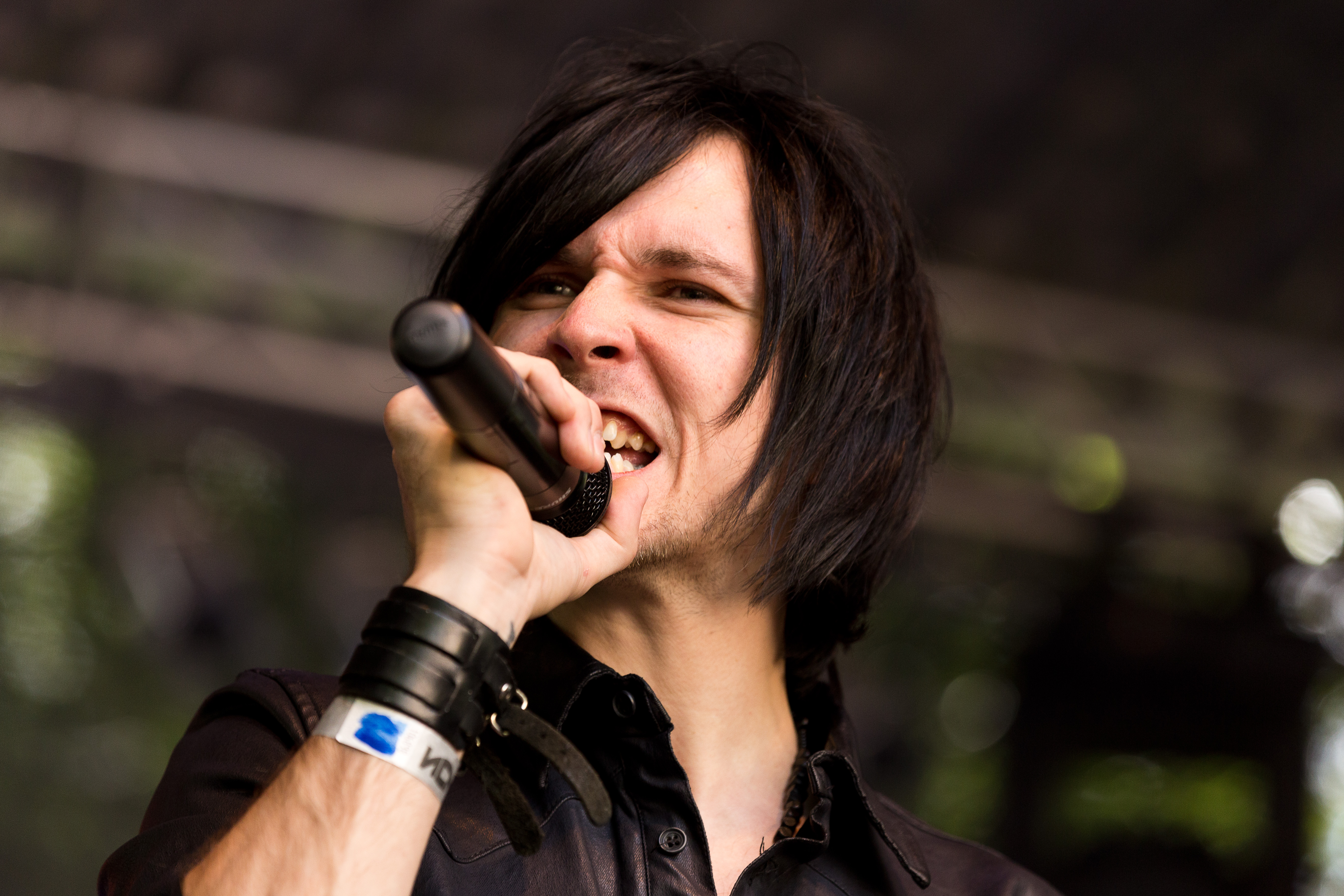 The international dark rock band DARKHAUS at the Nocturnal Culture Night 10 2015 in Deutzen/Germany.